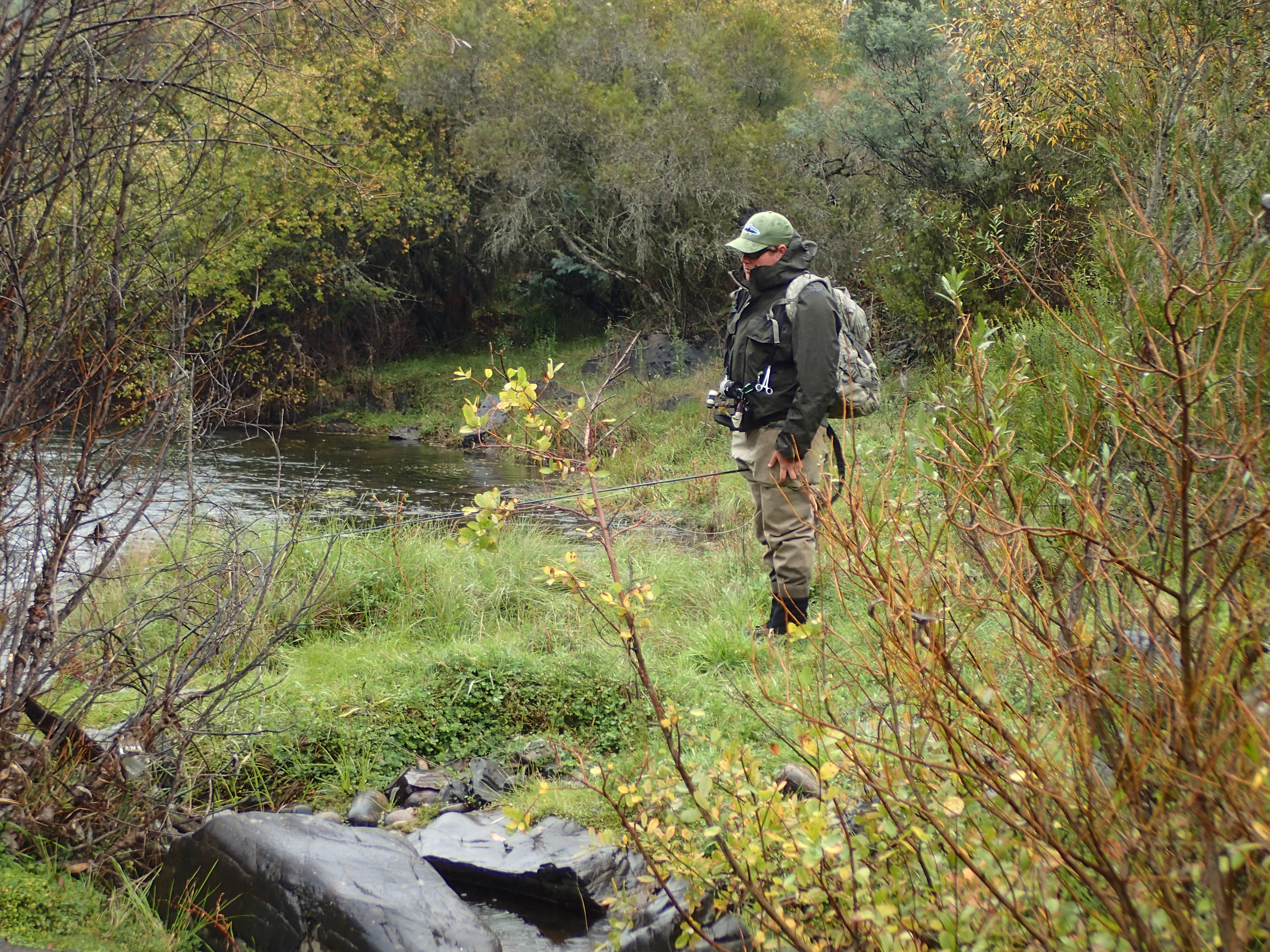 Mitta Mitta River gorge below Dartmouth dam in Great Dividing Ranges, Victoria, Australia